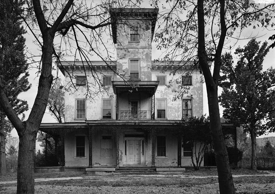 John Kennedy Mansion (aka Kennedy-Supplee Mansion), 1050 Valley Forge Road (Rte. 23), Port Kennedy, Pennsylvania (1852)